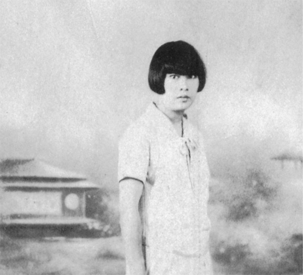 Zeng Xianzhi, Born in 1910, died in 1989, The photo was made in her teen years.